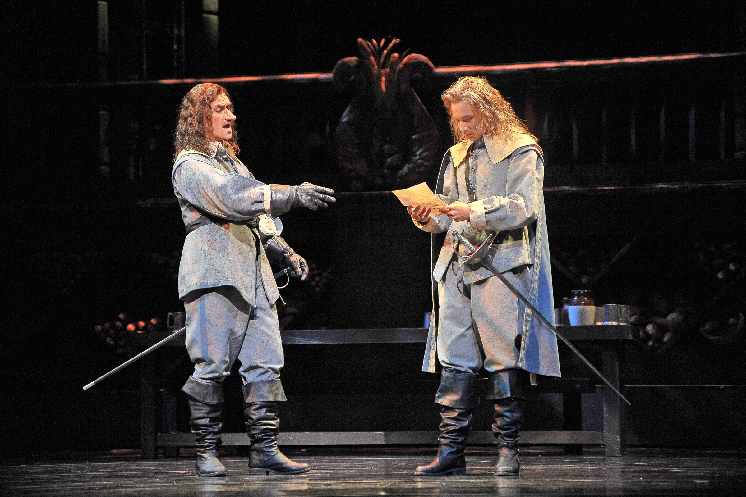 Marian Pop & Sebastien Guäze in Cyrano (Photo: Gaston De Cardenas), part of FGO's Opera Free for All project.